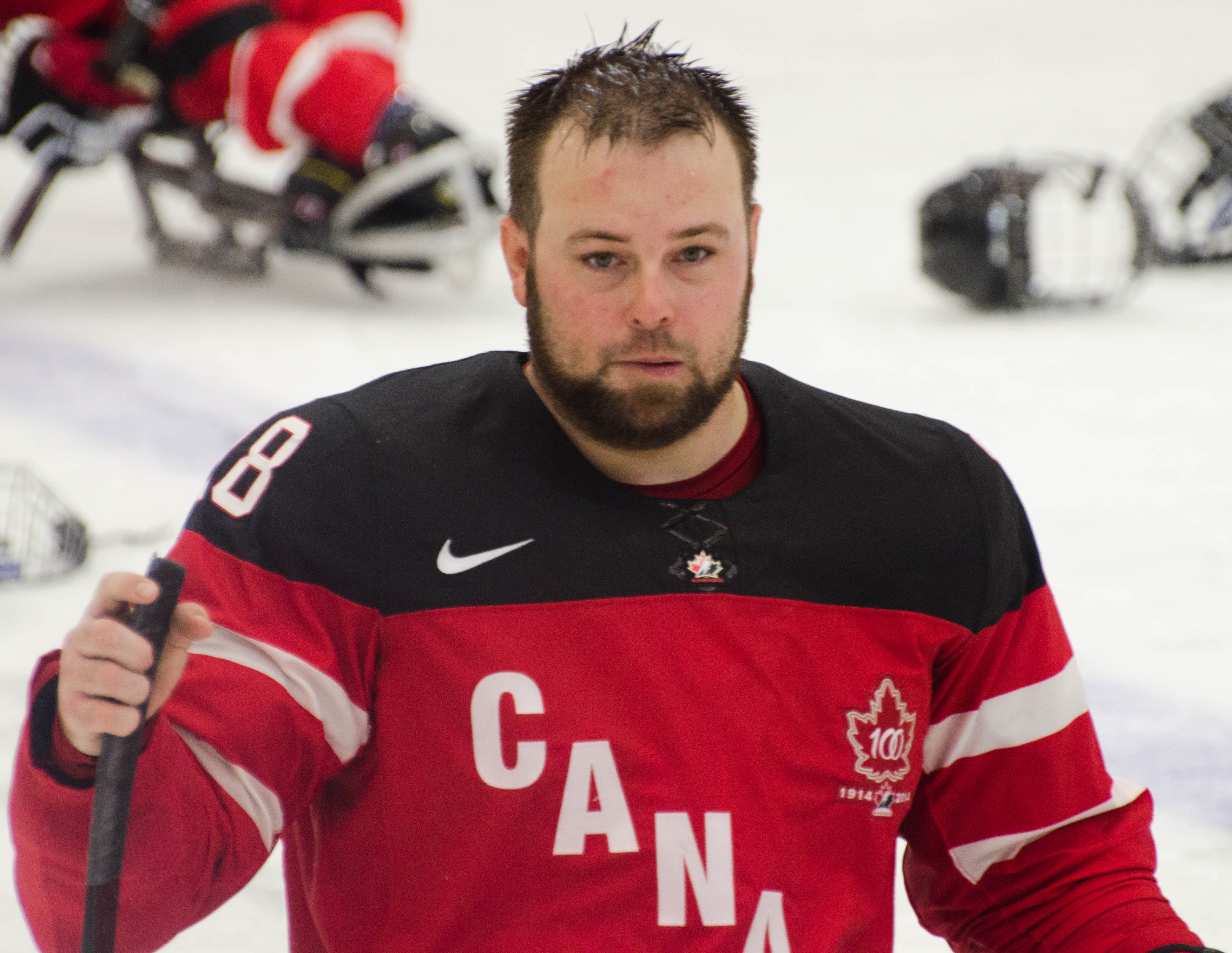 Billy Bridges in 2015